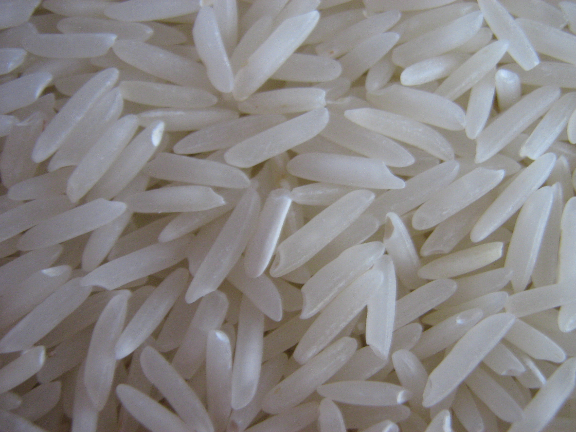 Basmati rice